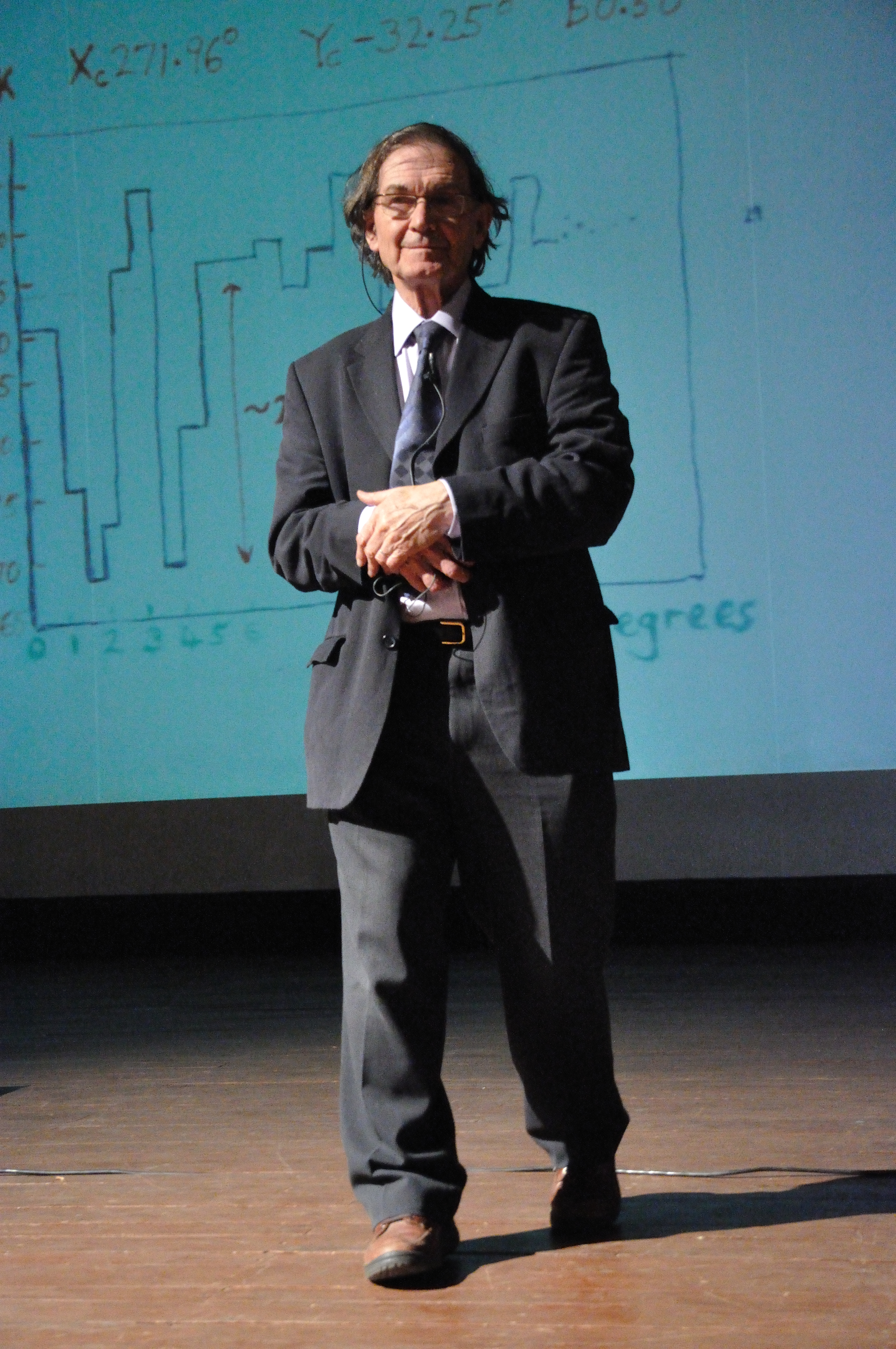 Professor Sir Roger Penrose (born 8 August 1931) OM, FRS is an English mathematical physicist renowned for his work in mathematical physics, in particular his contributions to general relativity and cosmology. He is also a recreational mathematician and philosopher.